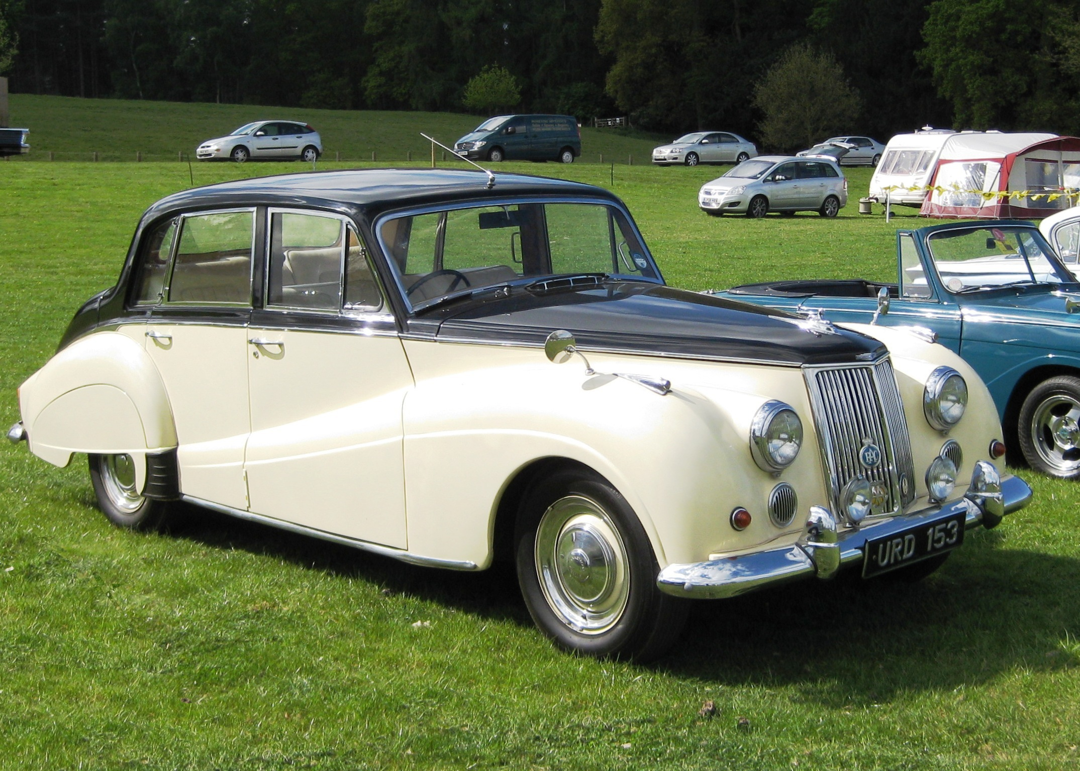 Armstrong-Siddeley (Star?) Sapphire near Boggleswade at classic car show